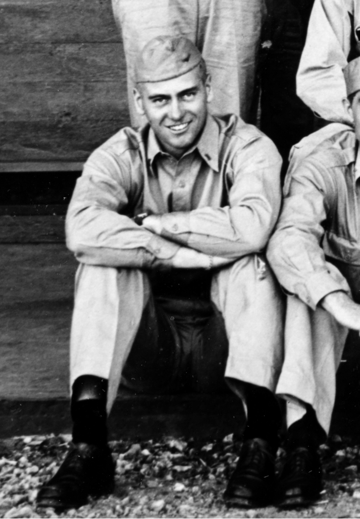 Carl Osberg recipient of US Navy Cross for heroism at Battle of Midway